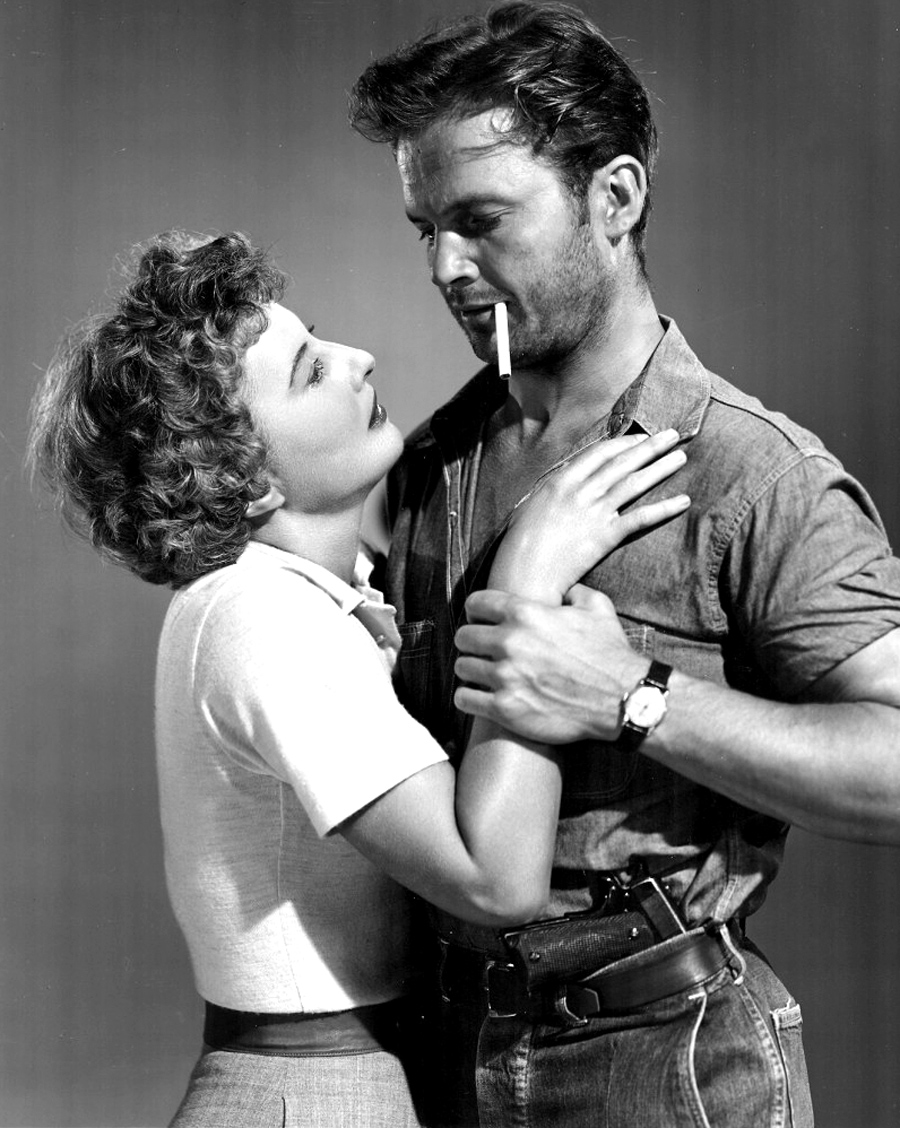 Publicity photo of Barbara Stanwyck and Ralph Meeker for film Jeopardy (1953).